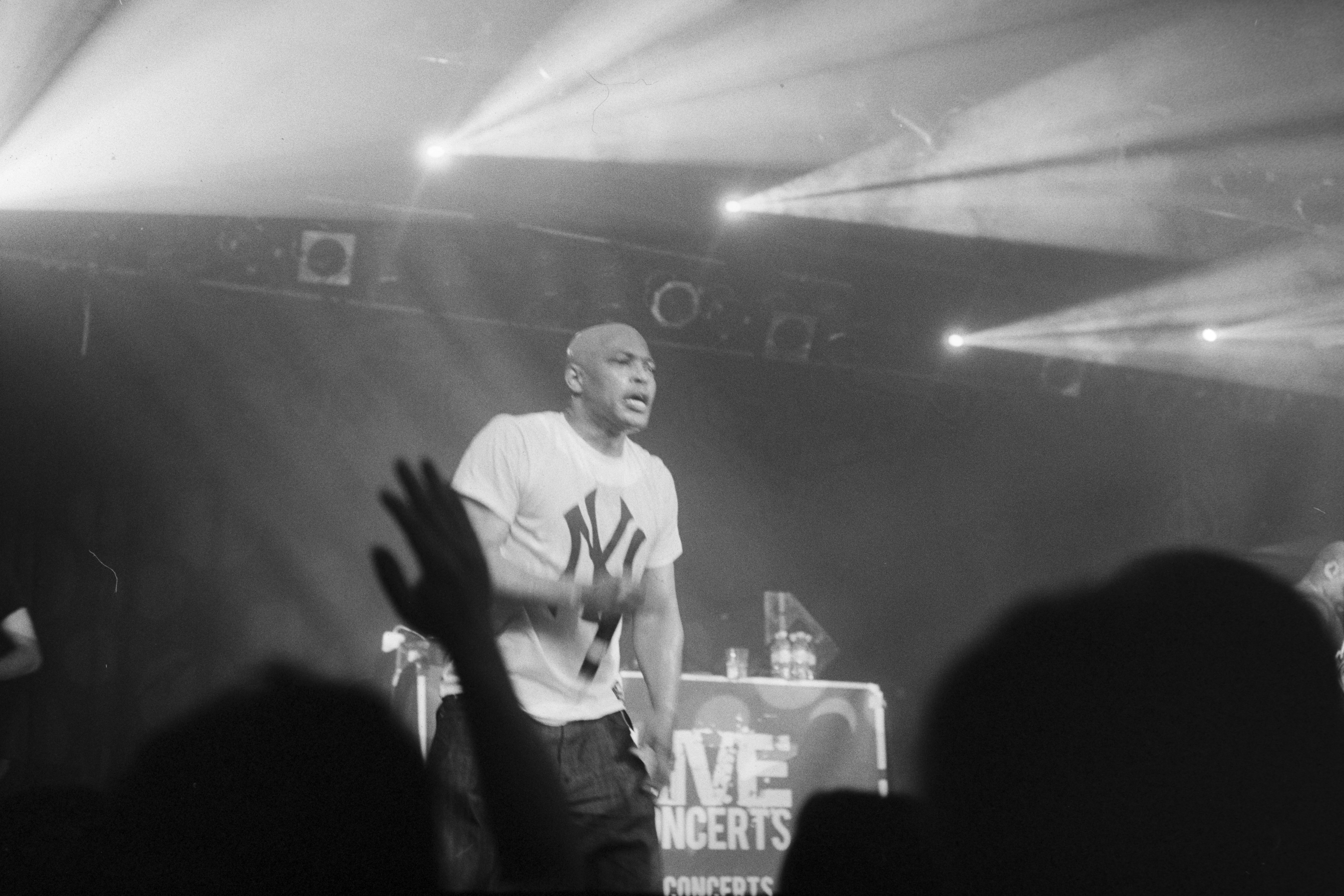 Sticky Fingaz on Stage